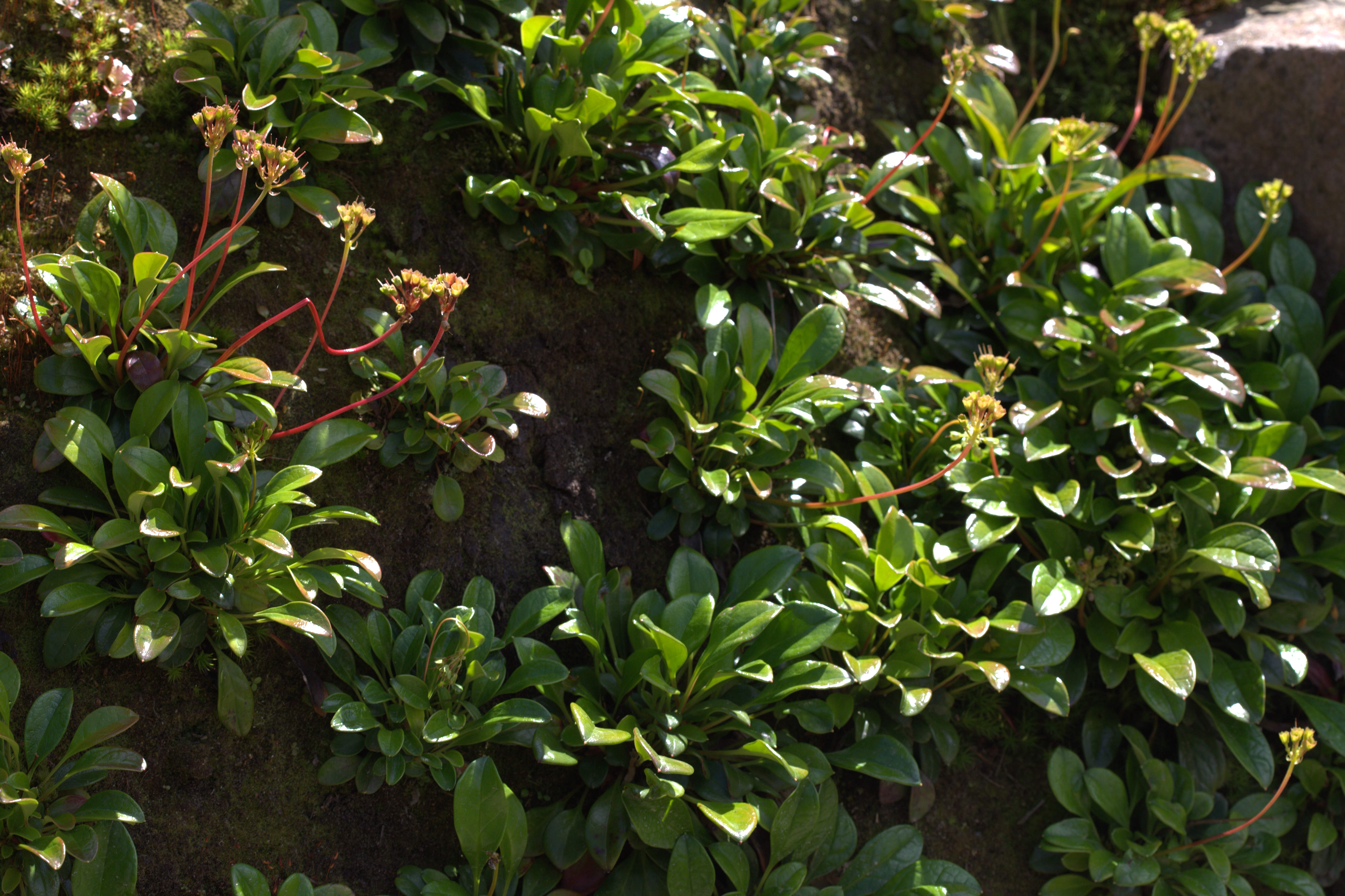 Photo taken at Gothenburg botanical garden. Specimen id: 2007-1646 s G Seed collected in 2007 from a garden (GBT/Larsen).